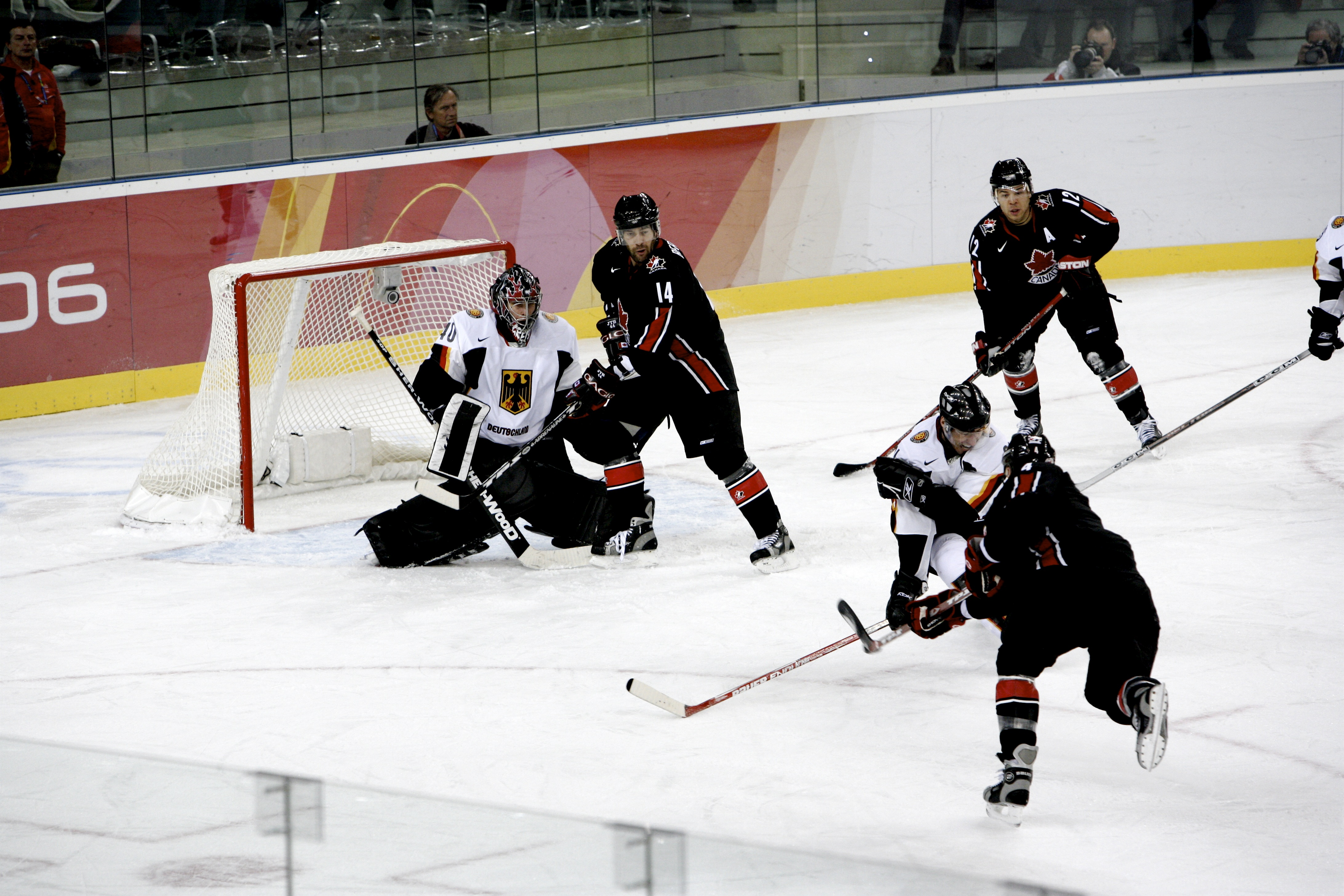 Germany vs Canada game, Winter Olympics 2006.